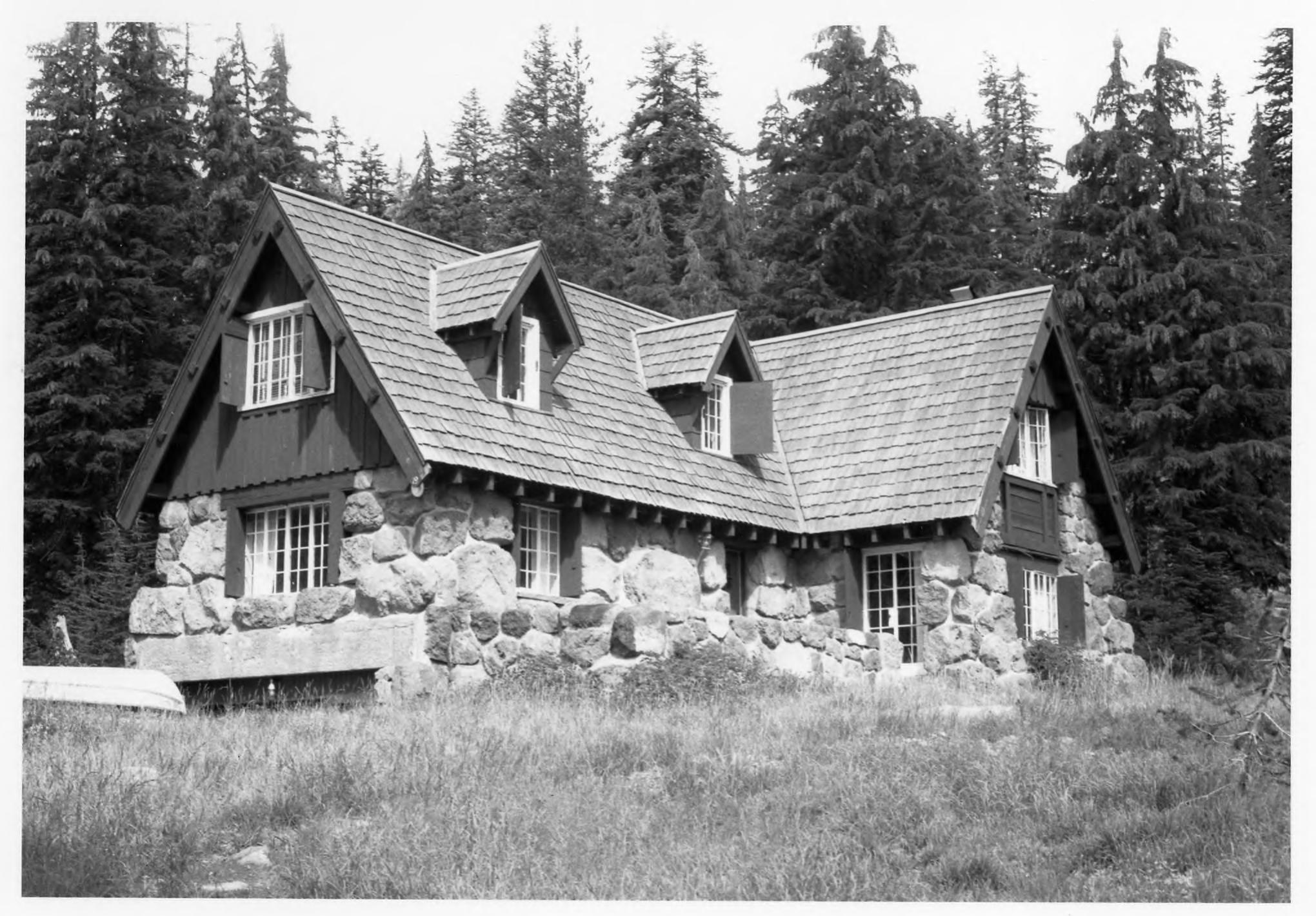 Superintendent's Residence at Crater Lake National Park, Oregon, looking northwest. The building is a National Historic Landmark.